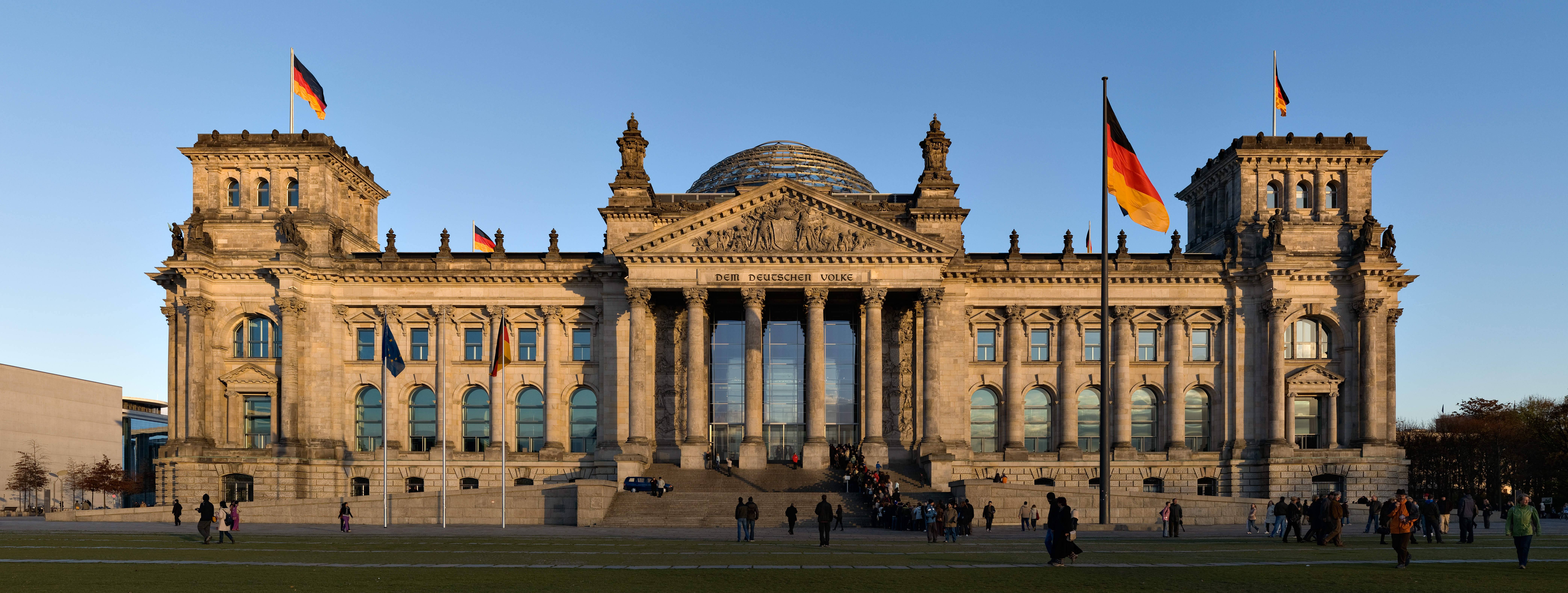 Reichstag building seen from the west, before sunset.